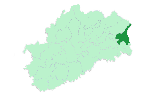 Canton of Champagney